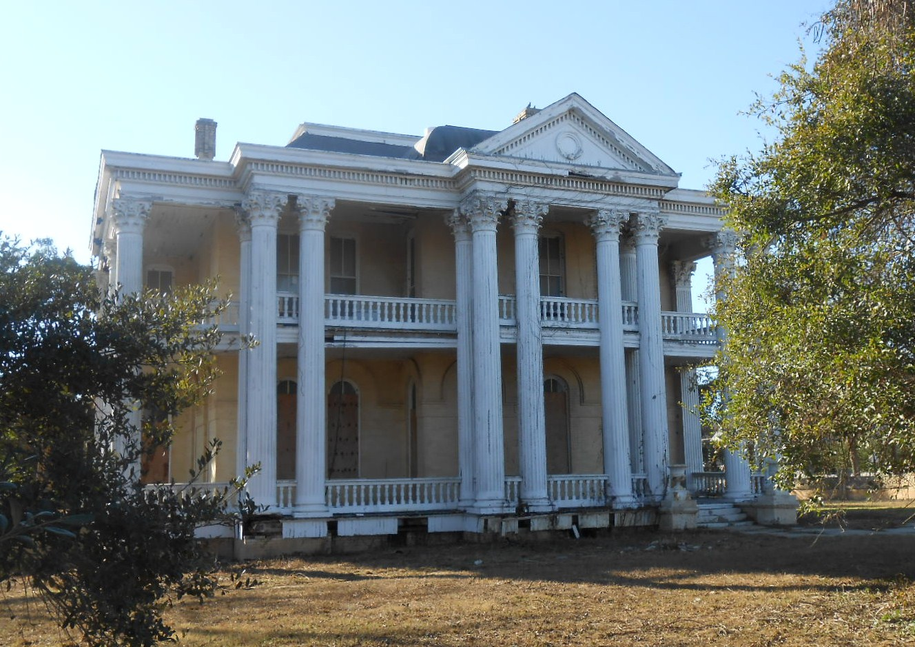 Walnut Ridge, a house at 121 St. Joseph St., Gonzales, Texas designed for James Francis Miller by the state's leading architect, J. Riely Gordon, in 1901.